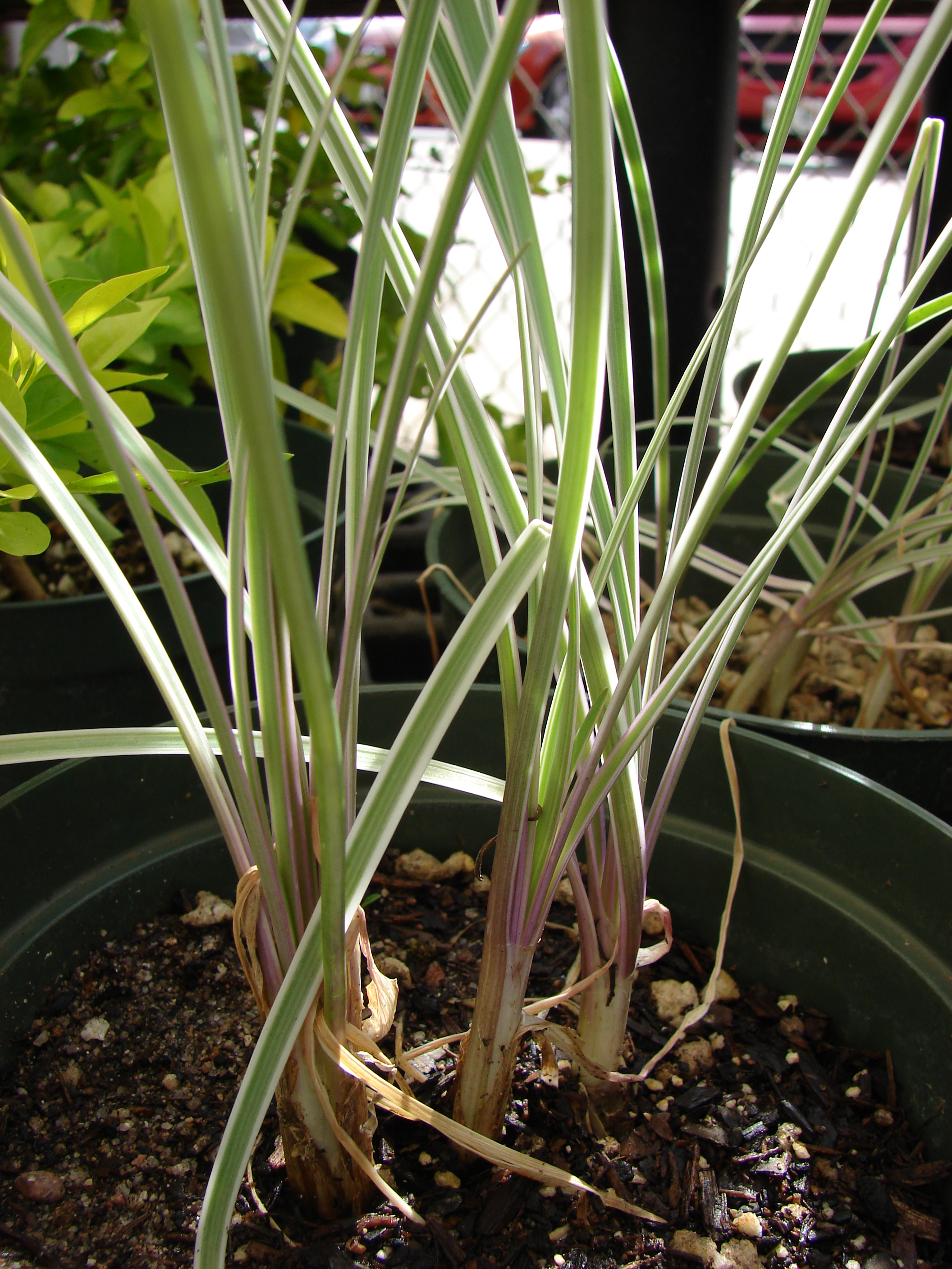 Tulbaghia violacea (habit). Location: Maui, Walmart Kahului